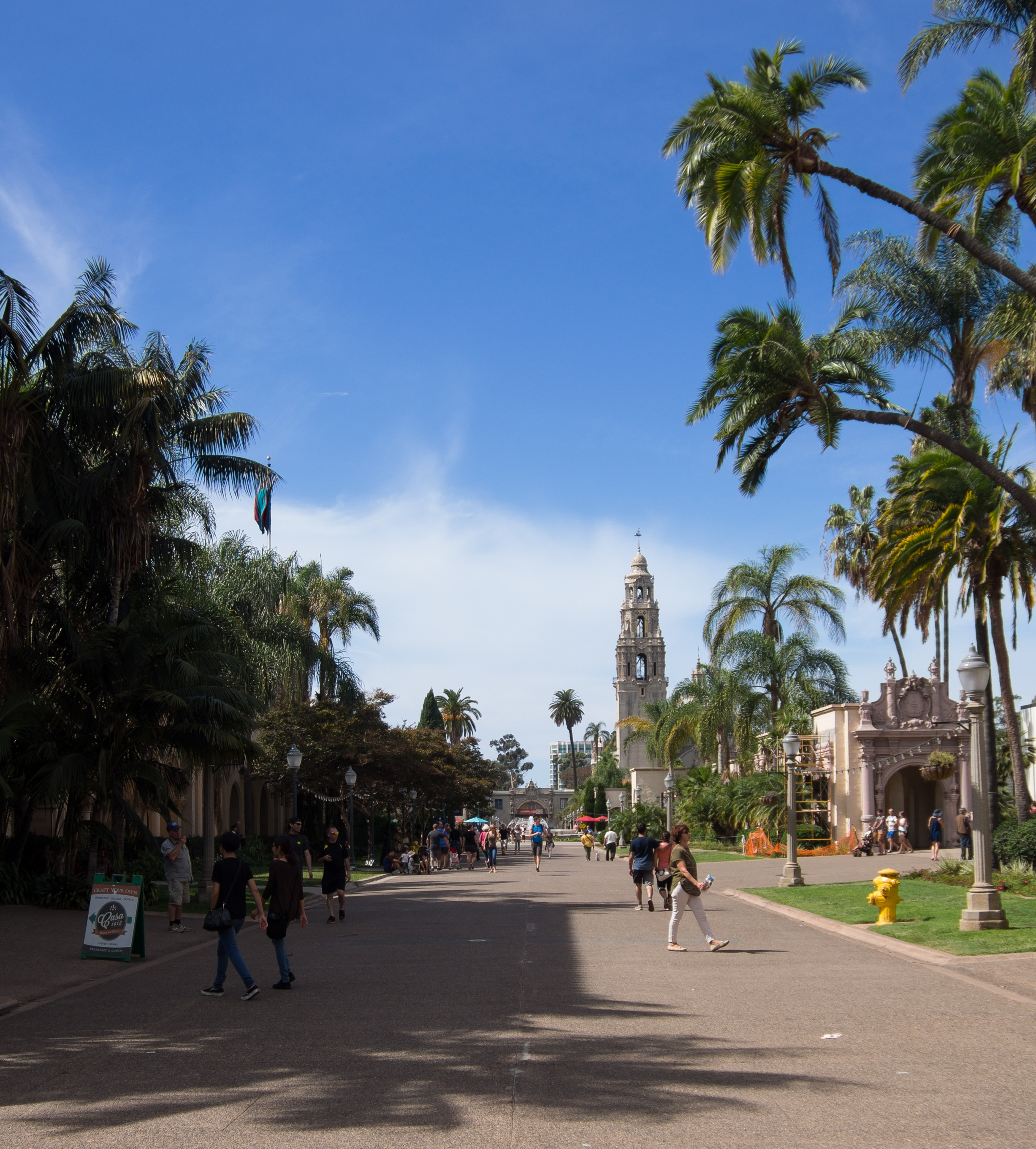 On El Prado in Balboa Park, looking west. In the El Prado Complex. Taken during the WikiConference North America 2016 Culture Crawl.